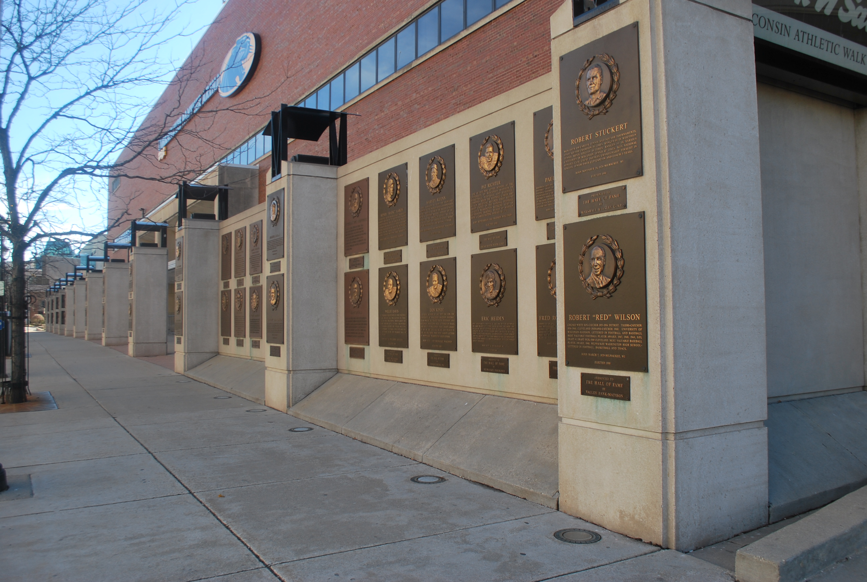 The Wisconsin Athletic Hall of Fame is a collection of over 125 of the state's greatest athletic icons. The Walk of Fame celebrates each hall of fame inductee with a commemorative bronze plaque.